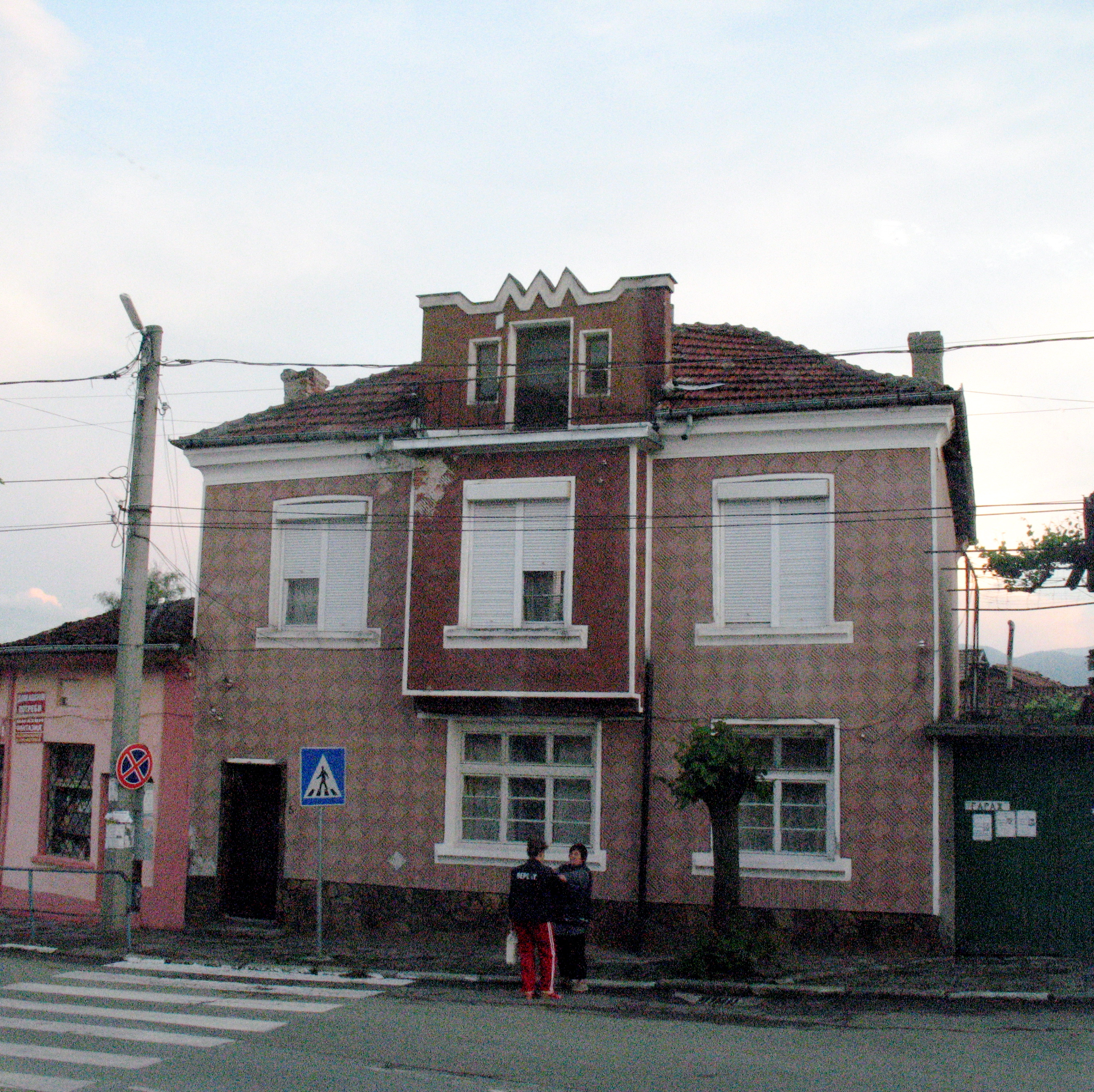 Architecture opposite bus station in Pavel Banya